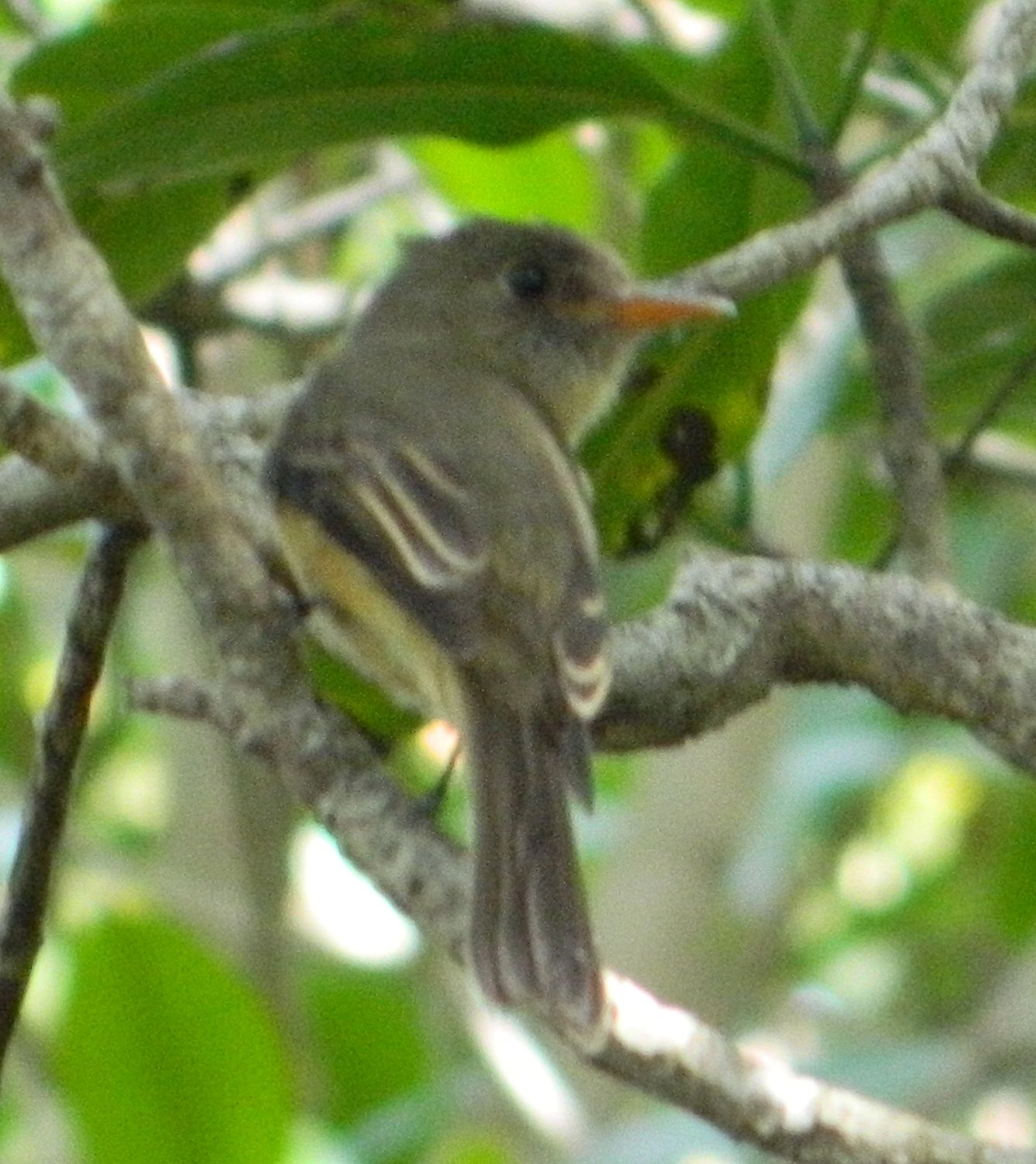 Puerto Rican Pewee in southwest Puerto Rico